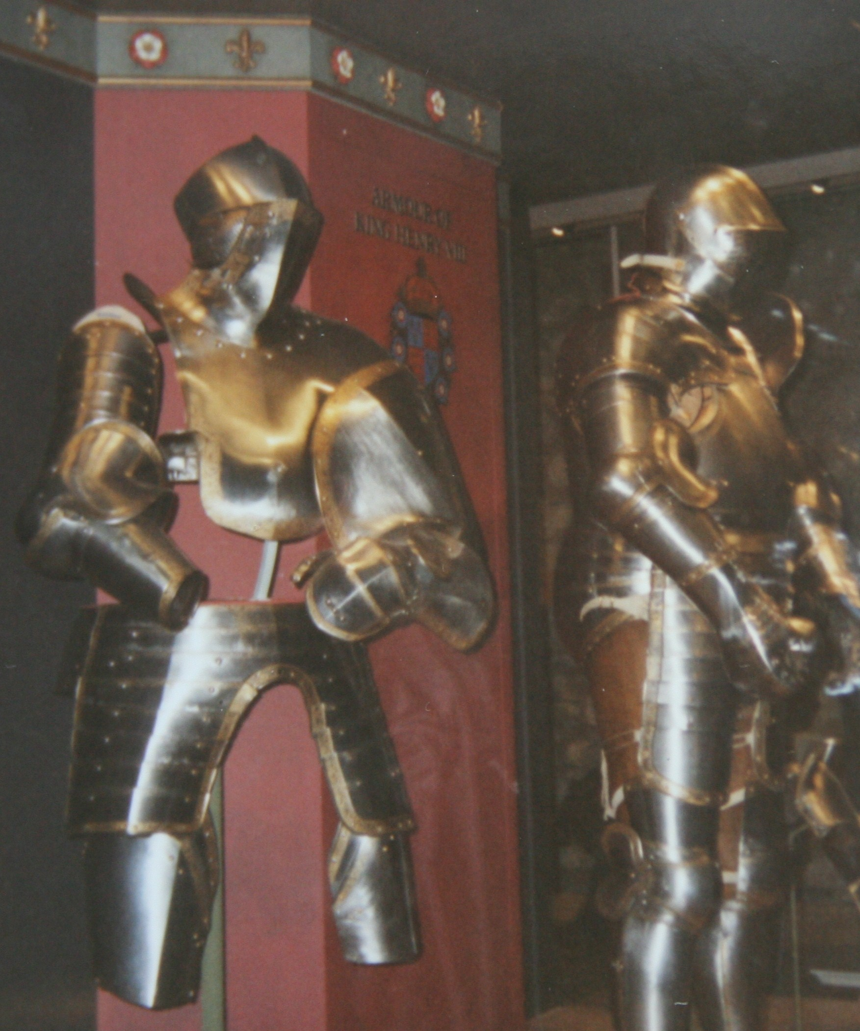 White Tower in Tower of London